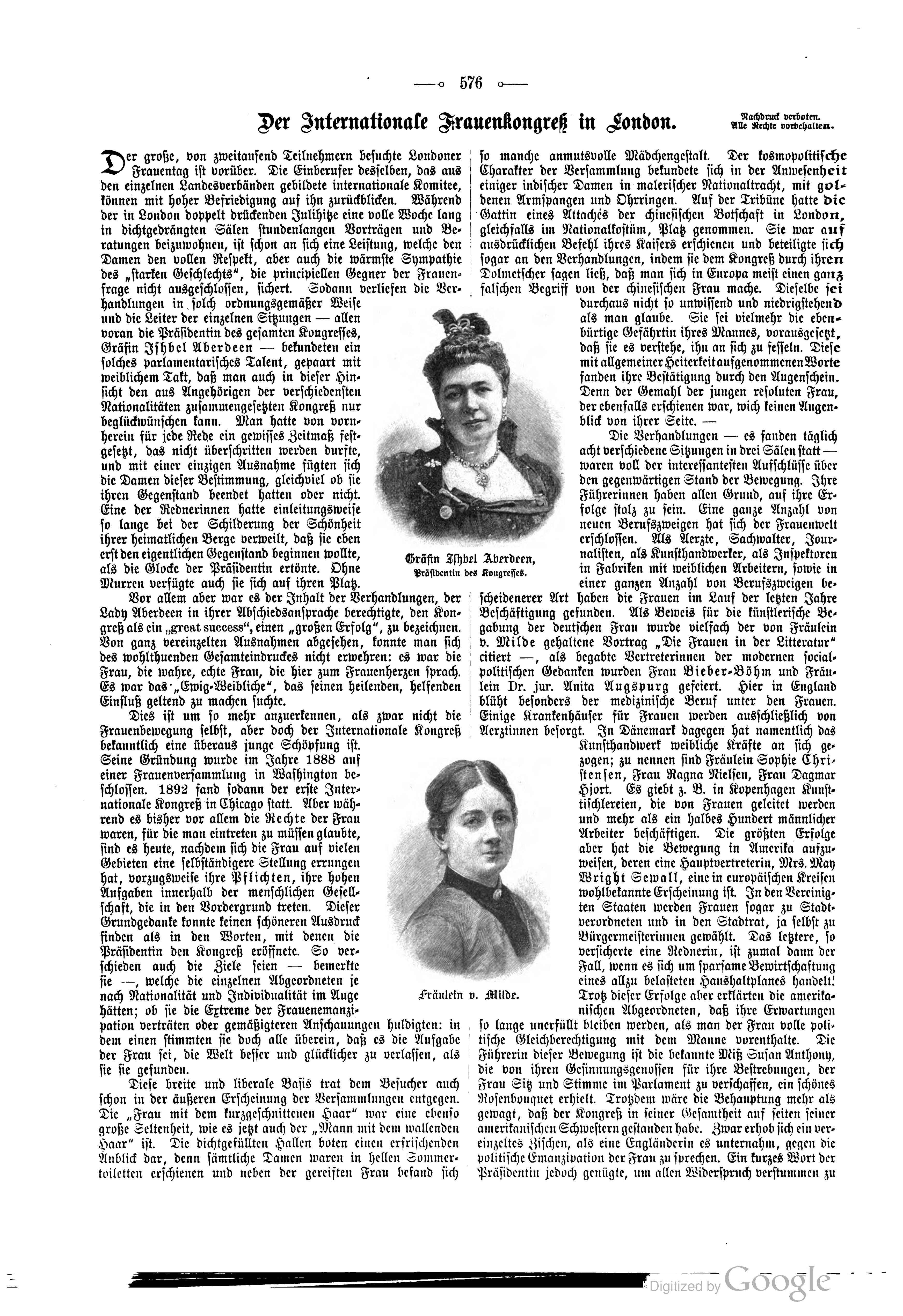 no caption